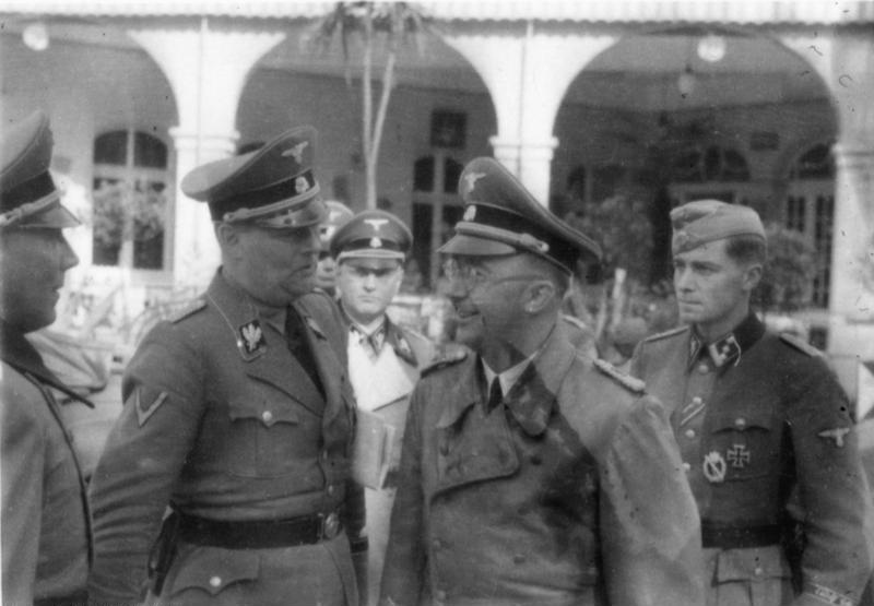 Information added by Wikimedia users.Additional information on Location: Luxembourg City, courtyard/terrace of Hotel Brasseur. (Information researched by user:Jwh). --Zinneke (talk) 22:55, 8 February 2009 (UTC)